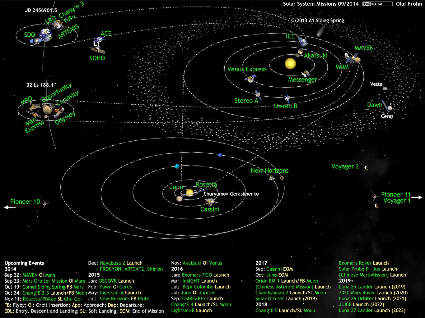 Space probe missions extant as of September 2014.